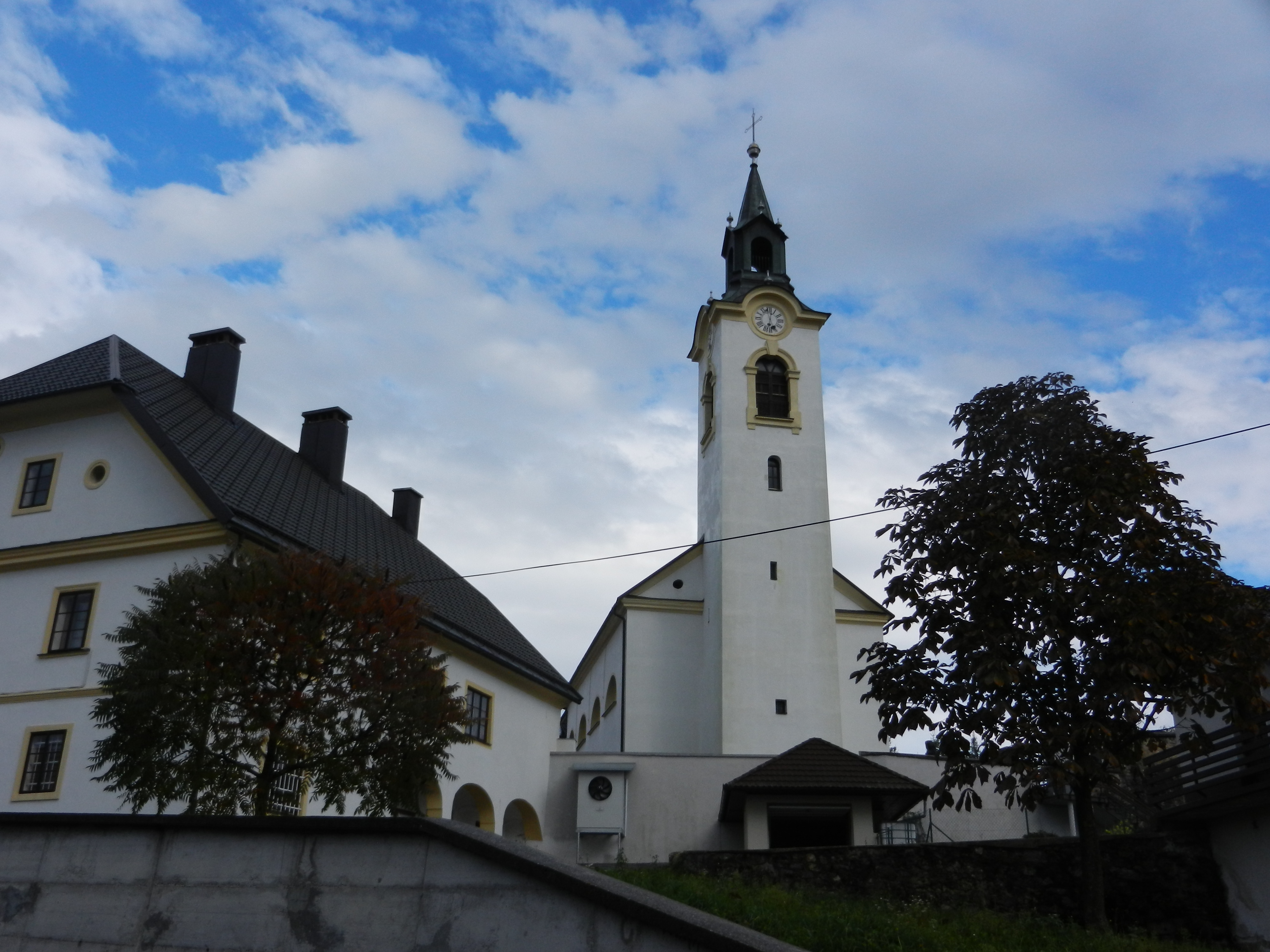 Fara, Bloke, Slovenia